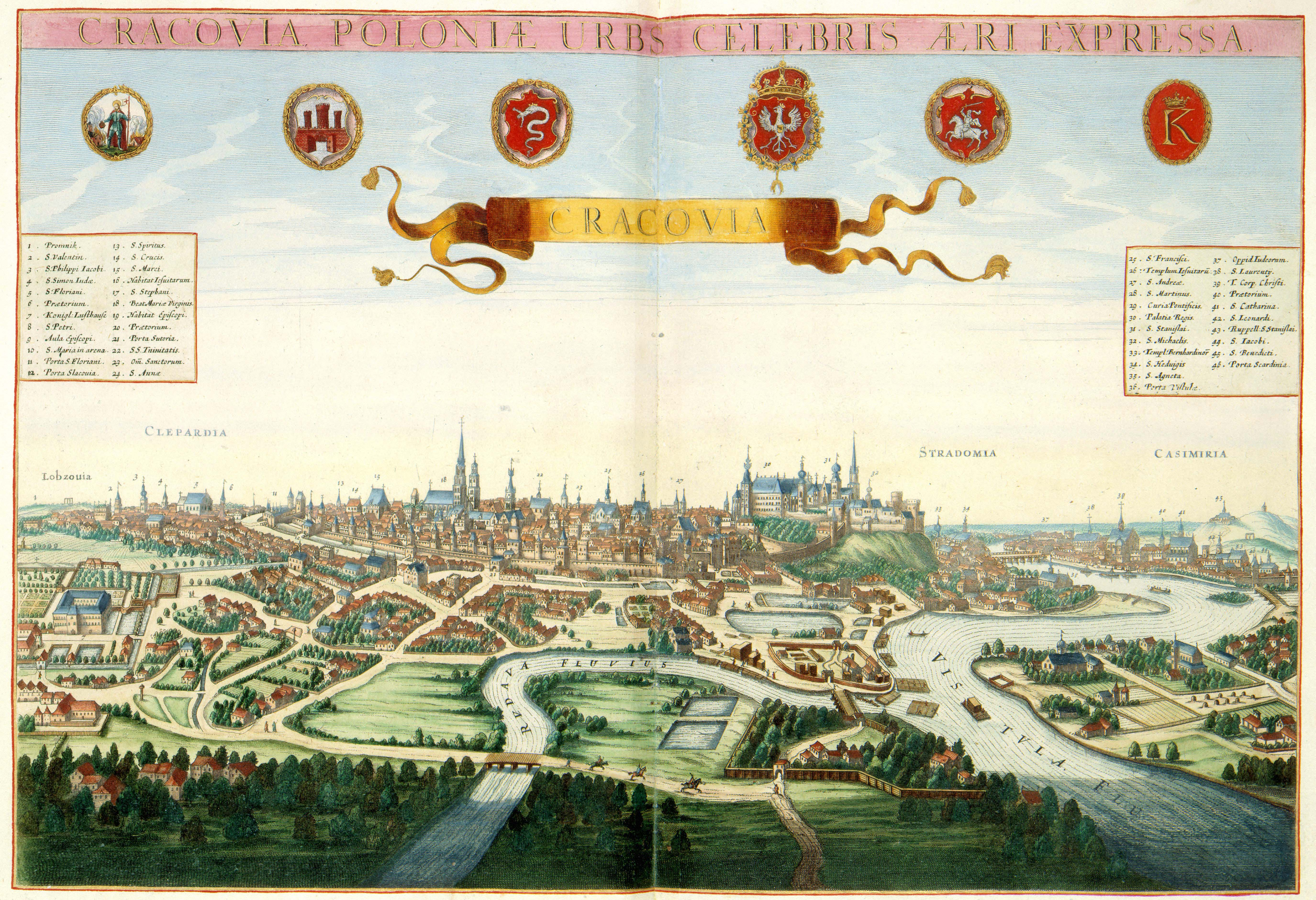 The Polish city Krakow was founded in the 8th century. The city was known as an important commercial center. Krakow stayed the capital of Poland for a long time until the government was moved to Warsaw in 1596. Until far into the 18th century, the Polish kings were crowned in Krakow. This view on the city of Krakow was probable published by Jan Janssonius (1588-1664).